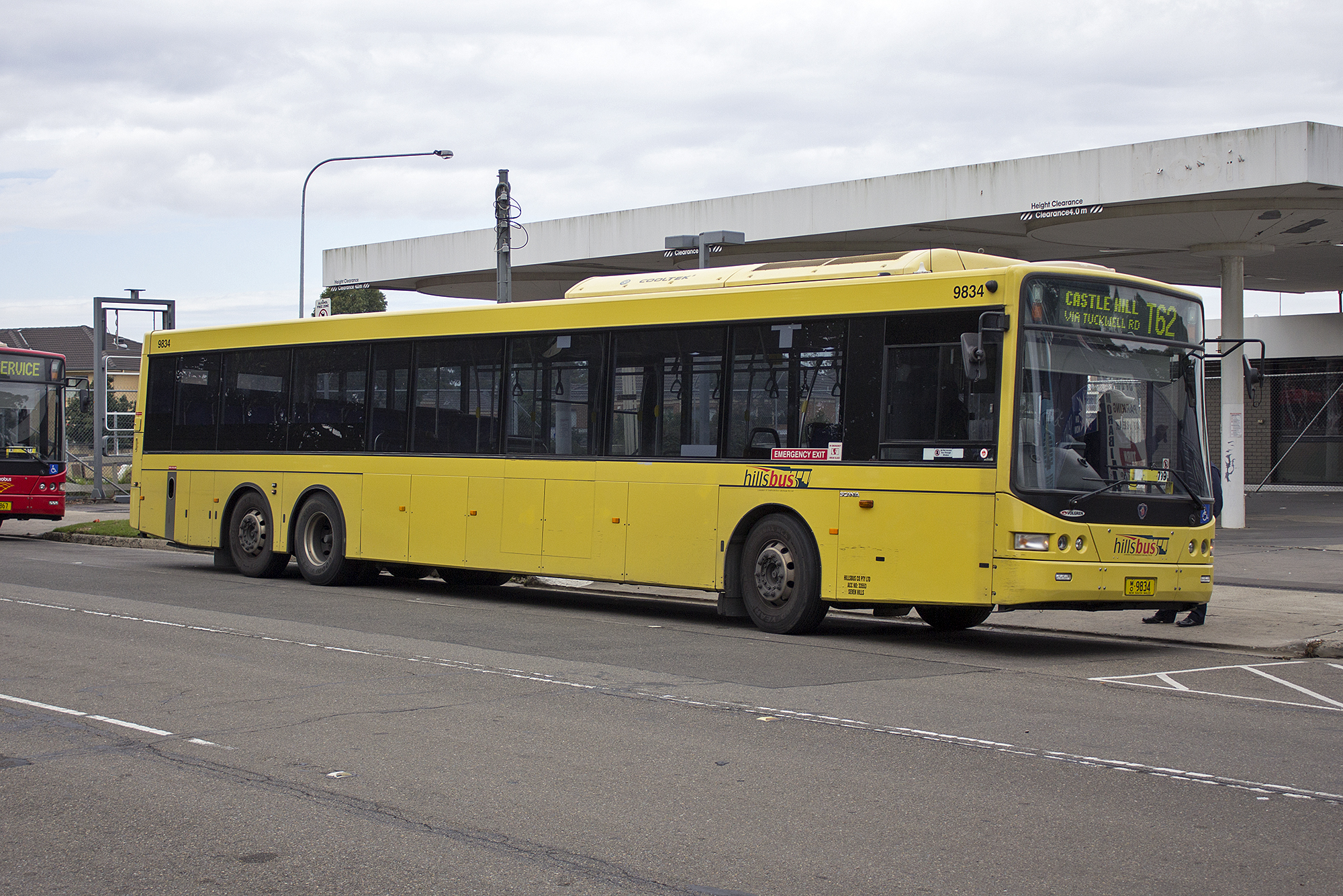 Hillsbus (mo 9834) Volgren 'CR228L' bodied Scania K280UB 14.5m at Castle Hill Interchange in Castle Hill, New South Wales.